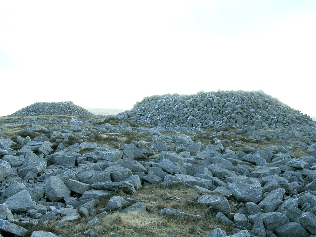 Carnau'r Garreg Las There are two large hollowed out cairns on Garreg Las. Building one would be quite an effort. Two is just showing off.